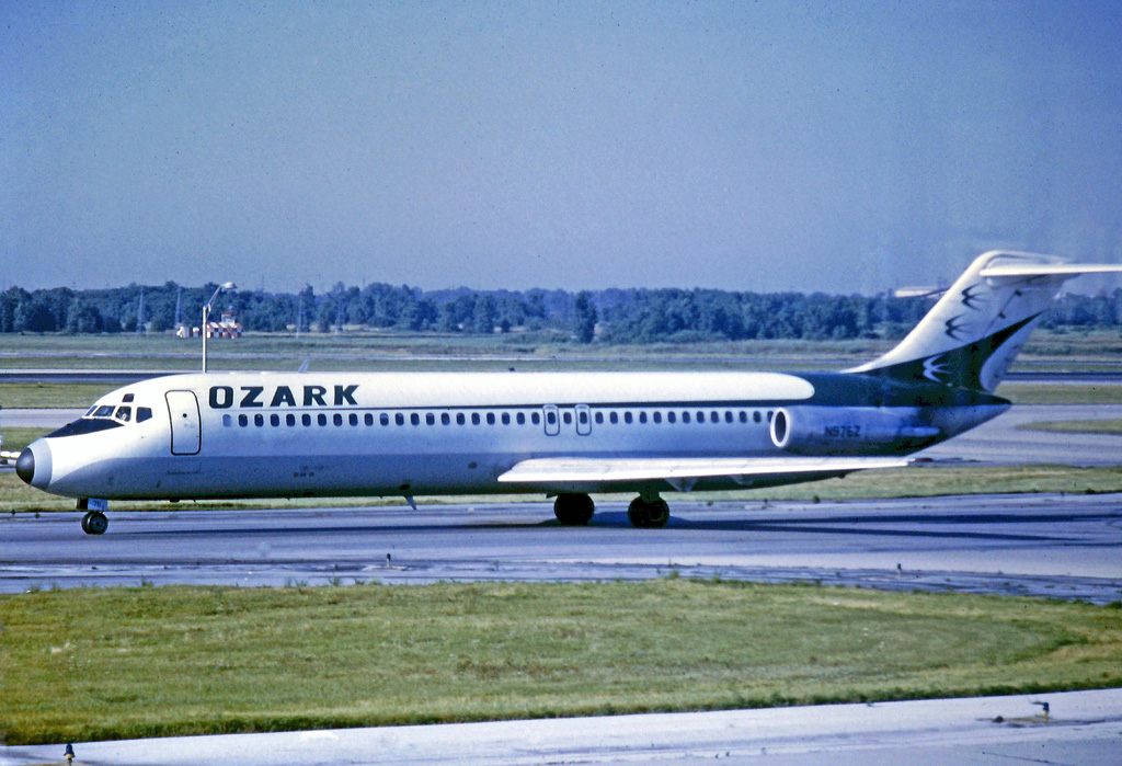 Douglas DC-9-31 N976Z of Ozark Air Lines at Chicago O'Hare in 1975